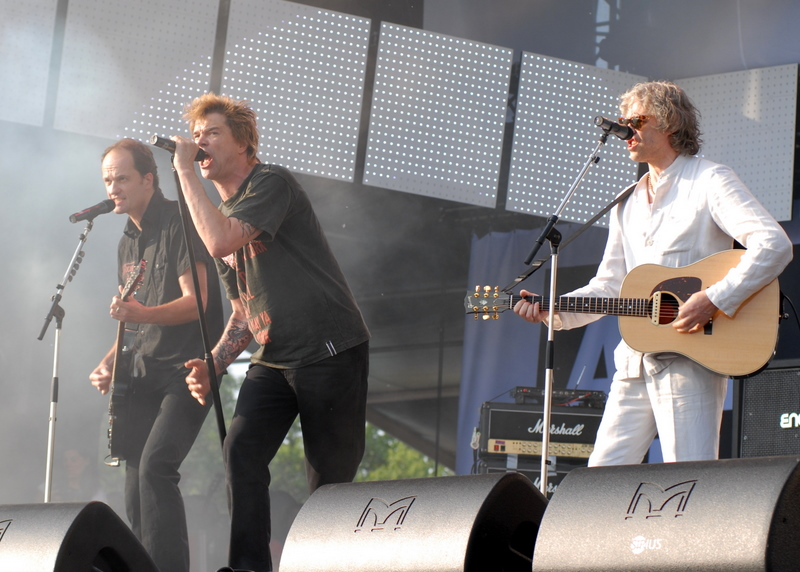 Die Toten Hosen & Bob Geldof performing at the "Deine Stimme Gegen Armut" (Your Voice Against Poverty) concert in Rostock, Germany on June 7th, 2007.